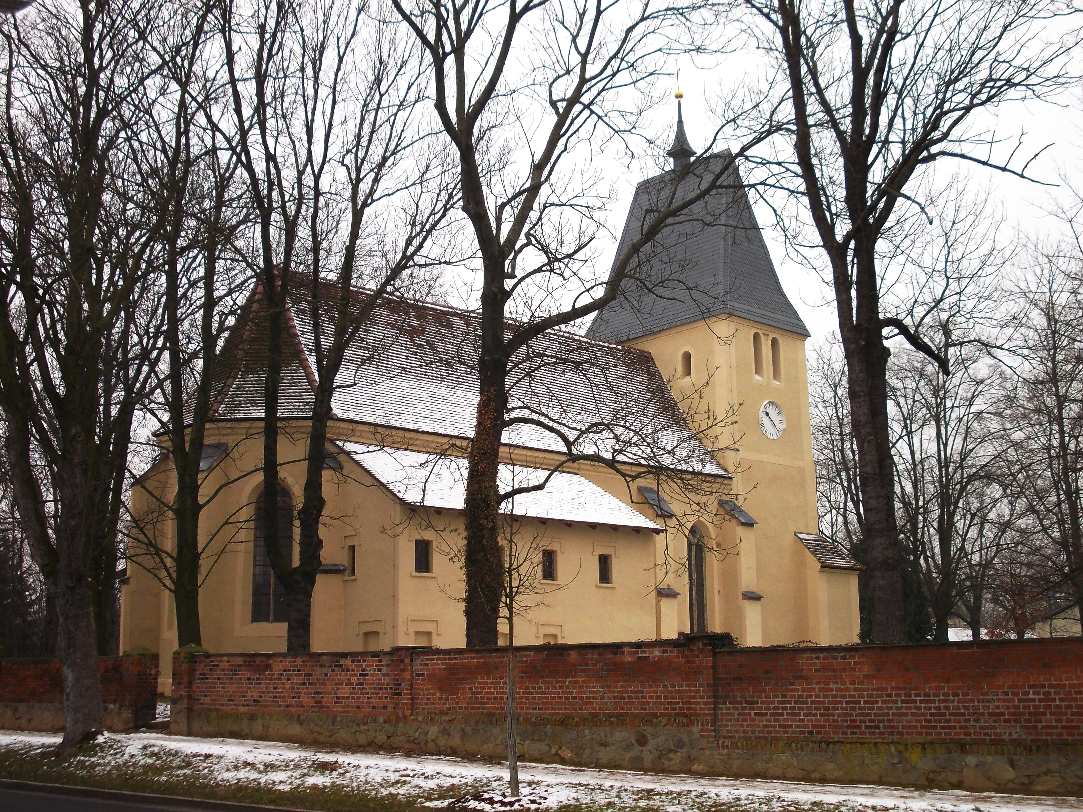 St. Nicholas' Church in Zschortau (Rackwitz, Nordsachsen district, Saxony) from the north-east